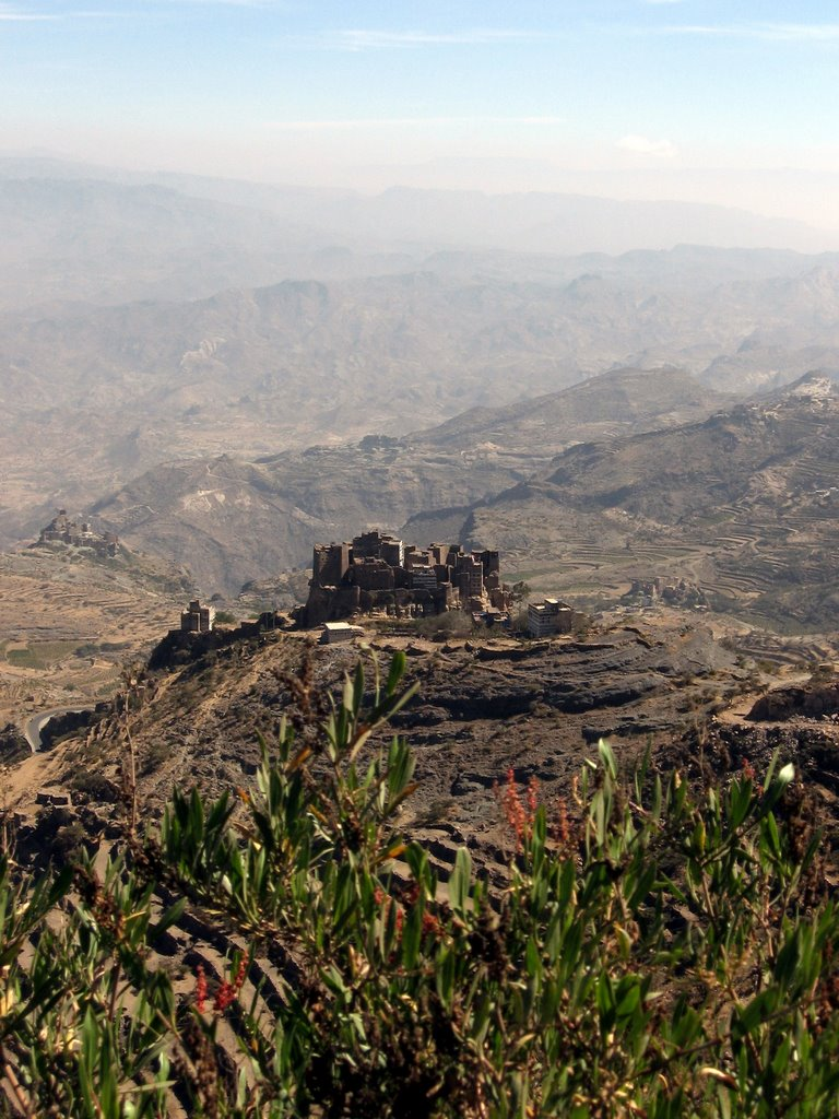 Haraz mountains